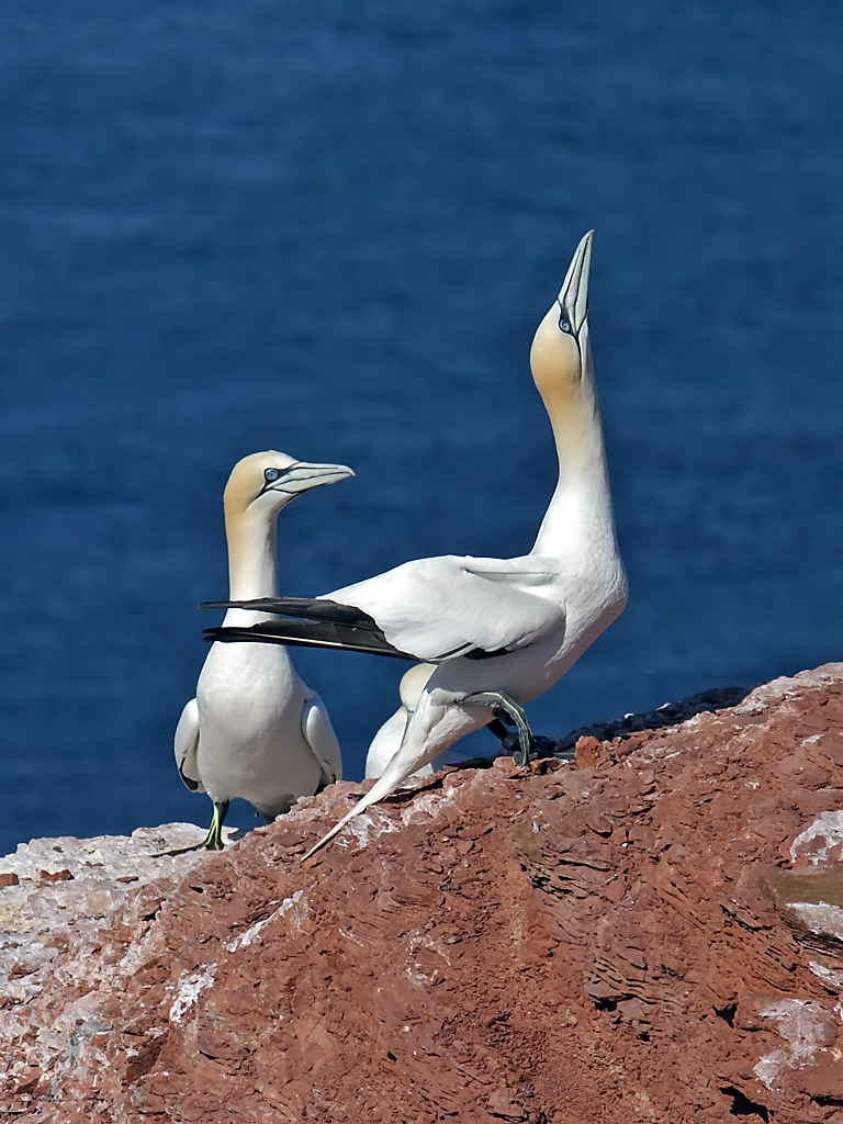 Northern Gannet